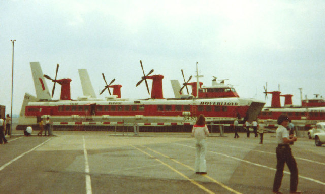 Pegwell Bay Hoverport, Ramsgate. Hoverlloyd hovercraft 'The Prince of Wales' prior to boarding of vehicles and passengers for the flight to Calais. Captains were obliged to hold an airline pilot's licence as well as a sea captain's. Flights from Ramsgate ceased in the late 1980's.